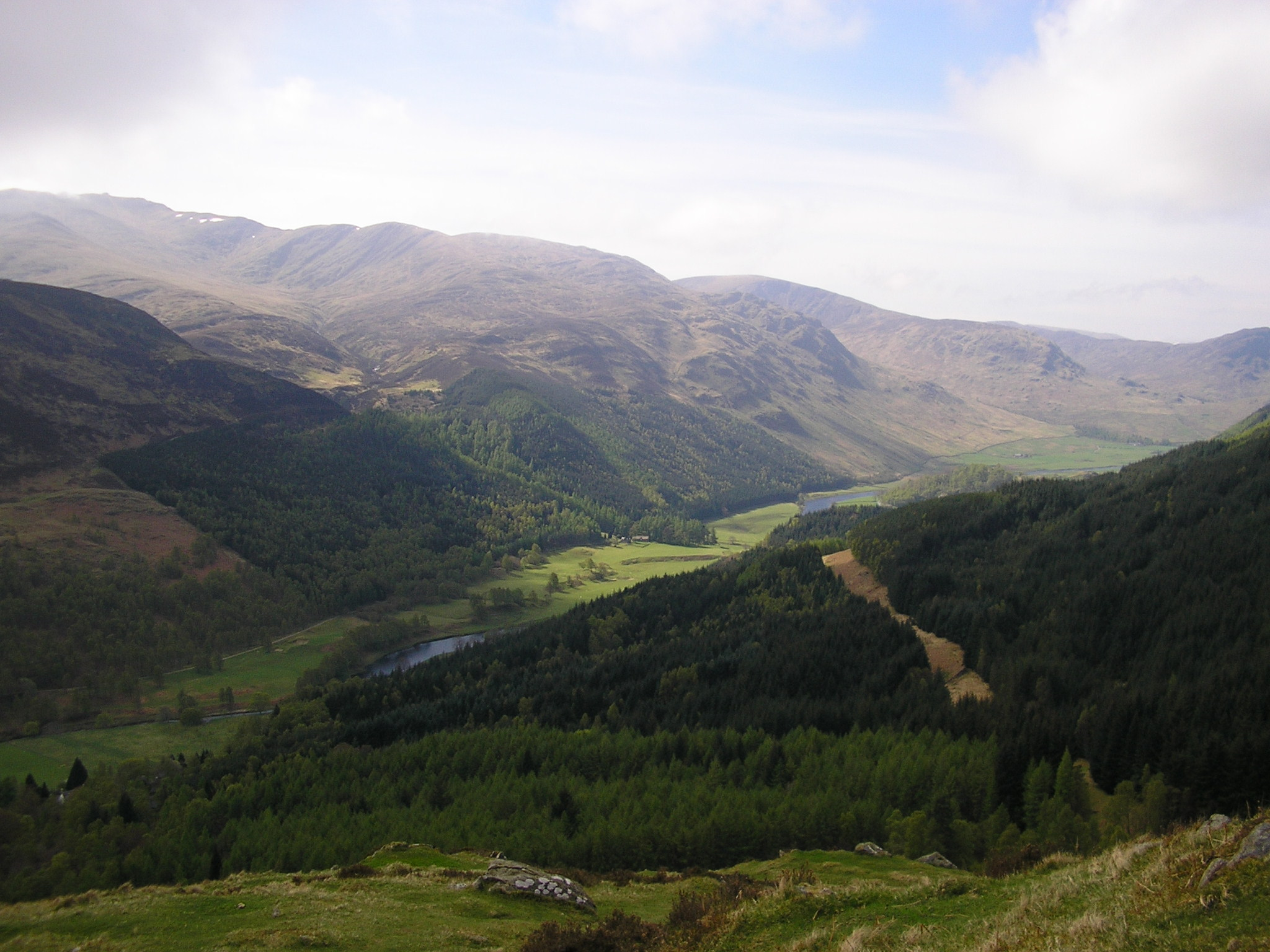 Looking up Glen Lyon from above Invervar